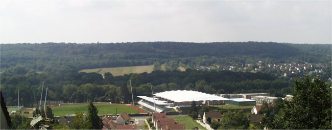 Training center of the French rugby national team